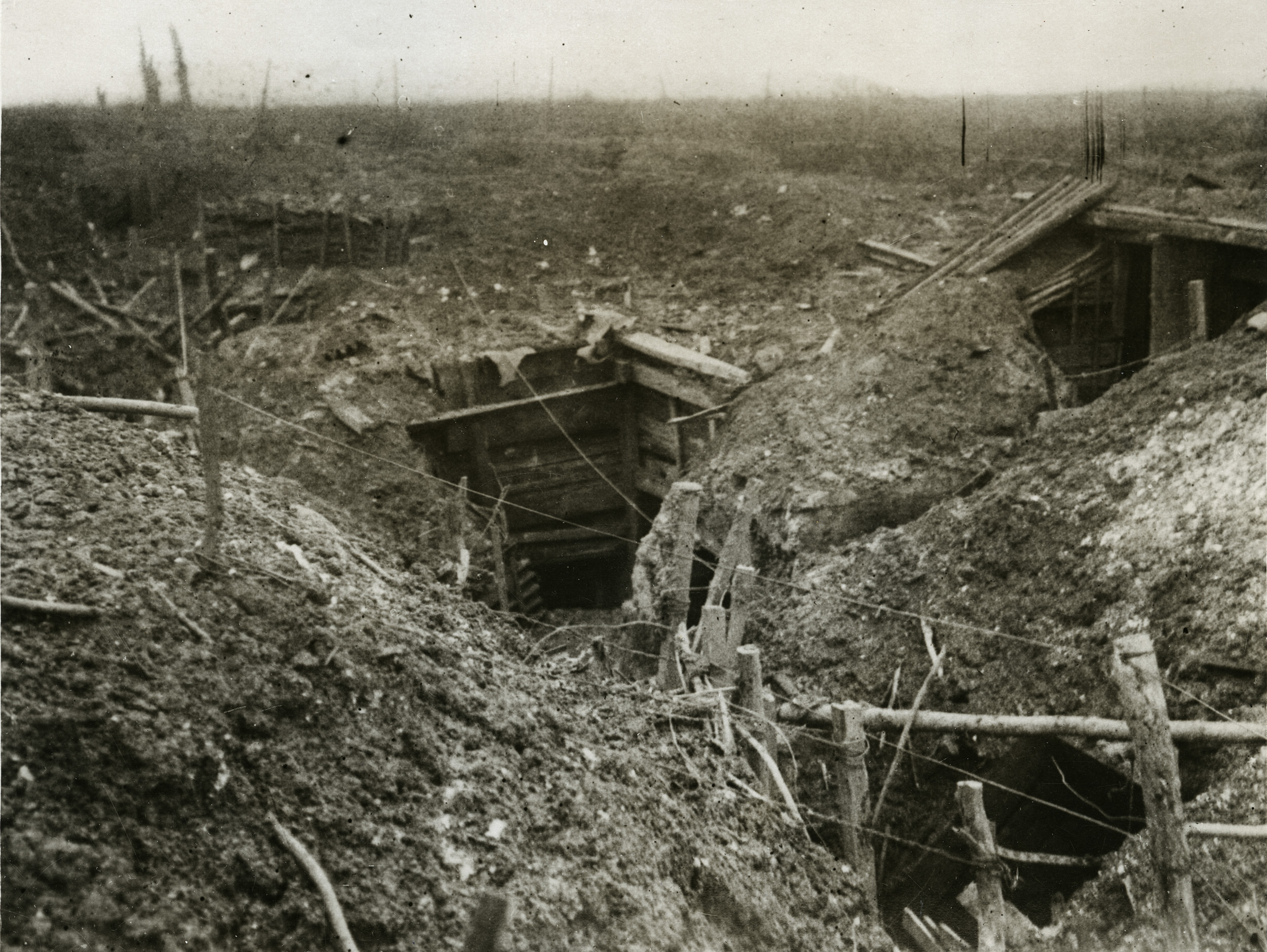 No known copyright restrictions. Please credit UBC Library as the image source. For more information, see Creator: Unknown Date Created: 1914 Source: Original Format: University of British Columbia Library. Rare Books & Special Collections. World War I 1914-1918 British Press photograph collection. BC 1763. Permanent URL